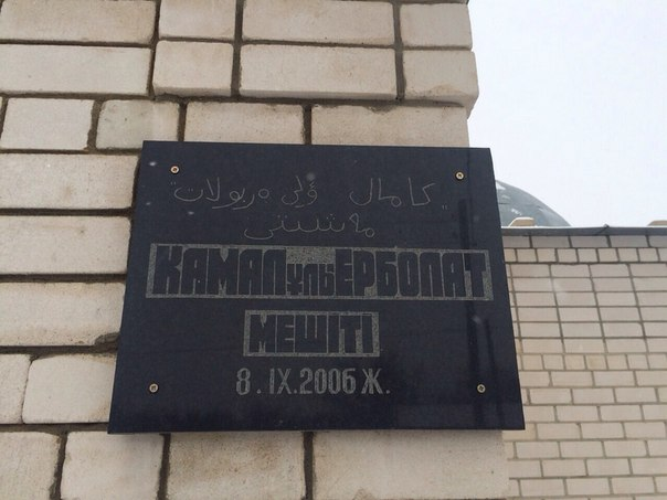 Сагашилі мешіті